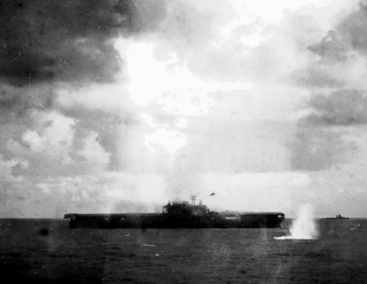 A Japanese Nakajima B5N2 "Kate" torpedo aircraft (visible just above and to the right of carrier's island) drops a torpedo (splash at lower right) that will hit the U.S. Navy aircraft carrier USS Hornet (CV-8) and cause fatal damage on 26 October 1942.